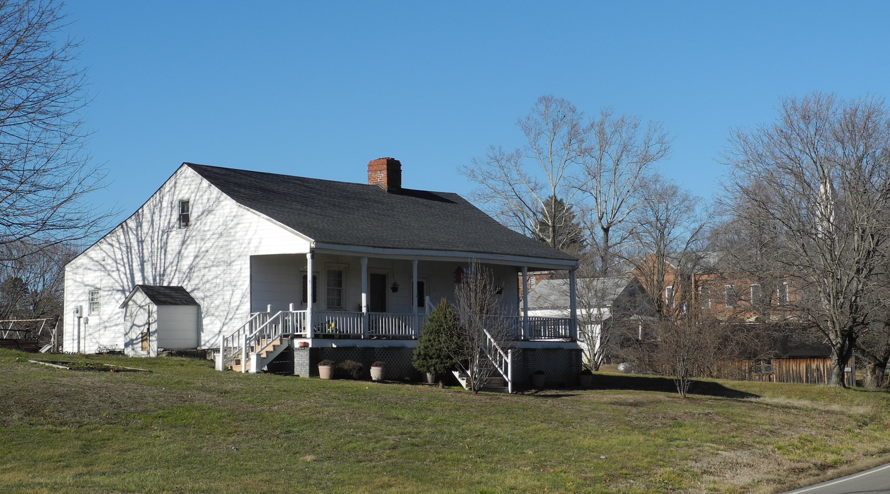 Historic home of Etienne and Louise LaMarque in Old Mines, Missouri. The house, which was built in 1818, was bought by LaMarque in 1822. The LaMarques contributed generously to the construction of St. Joachim Catholic Church, seen in the background, which was built in 1831. The home, typical of colonial French houses of the time, is still occupied as a private residence. (c.f. Paul T. Hellmann, 2005, Historical Gazetteer of the United States, p.635; Vallé Higginbotham, 1968, John Smith T, Missouri Pioneer, p.18.)